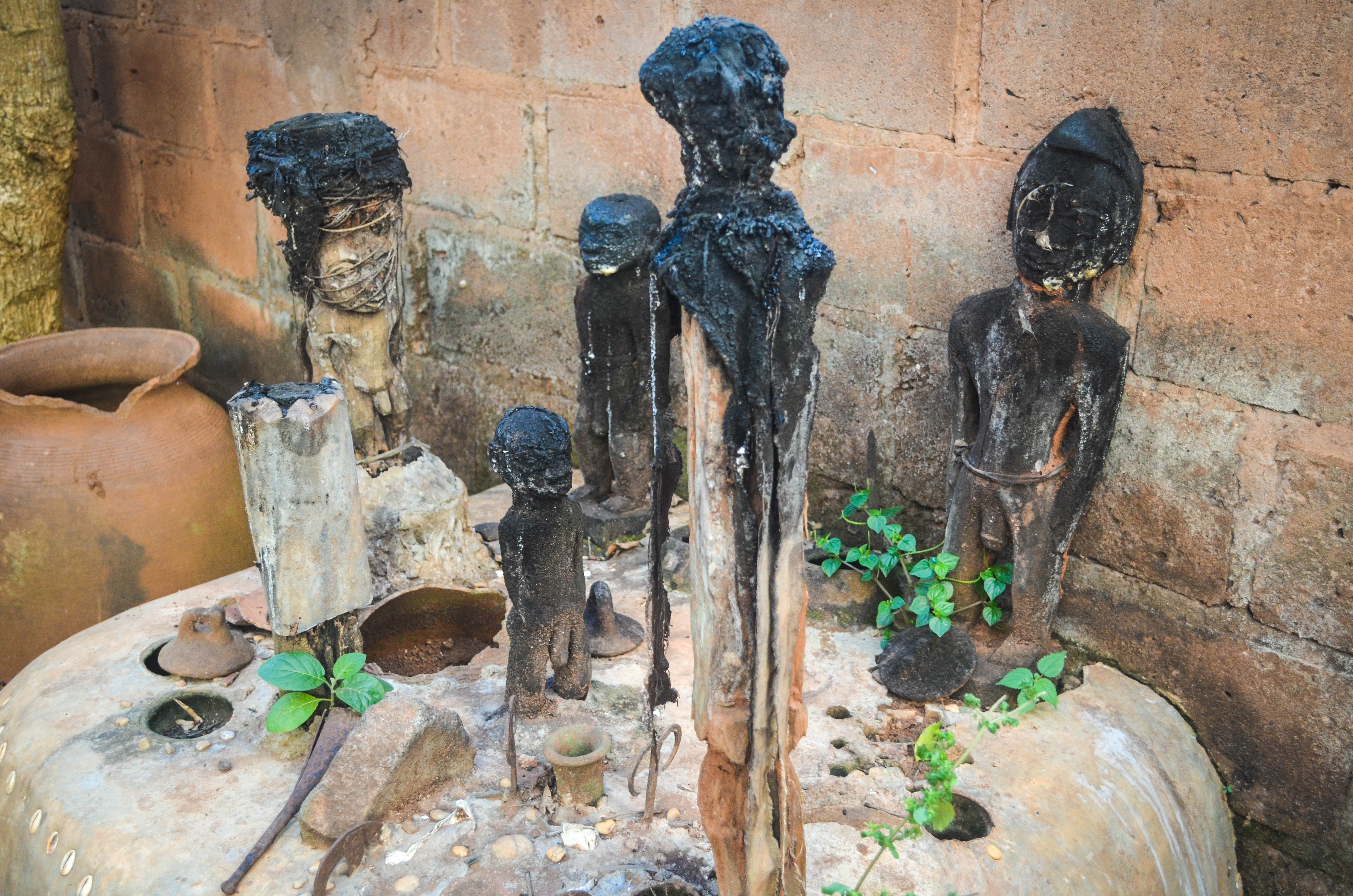 Taken on 07 October 2013 in Benin around Abomey : Cycling Africa beyond mountains and deserts until Cape Town